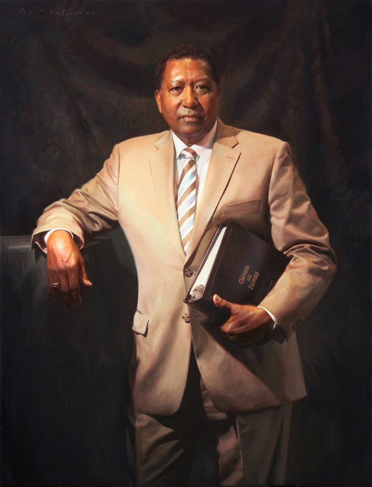 Judge James Ware official portrait art by Scott Johnston, oil on linen, 36x28-inches, collection of the United States District Court of Northern California